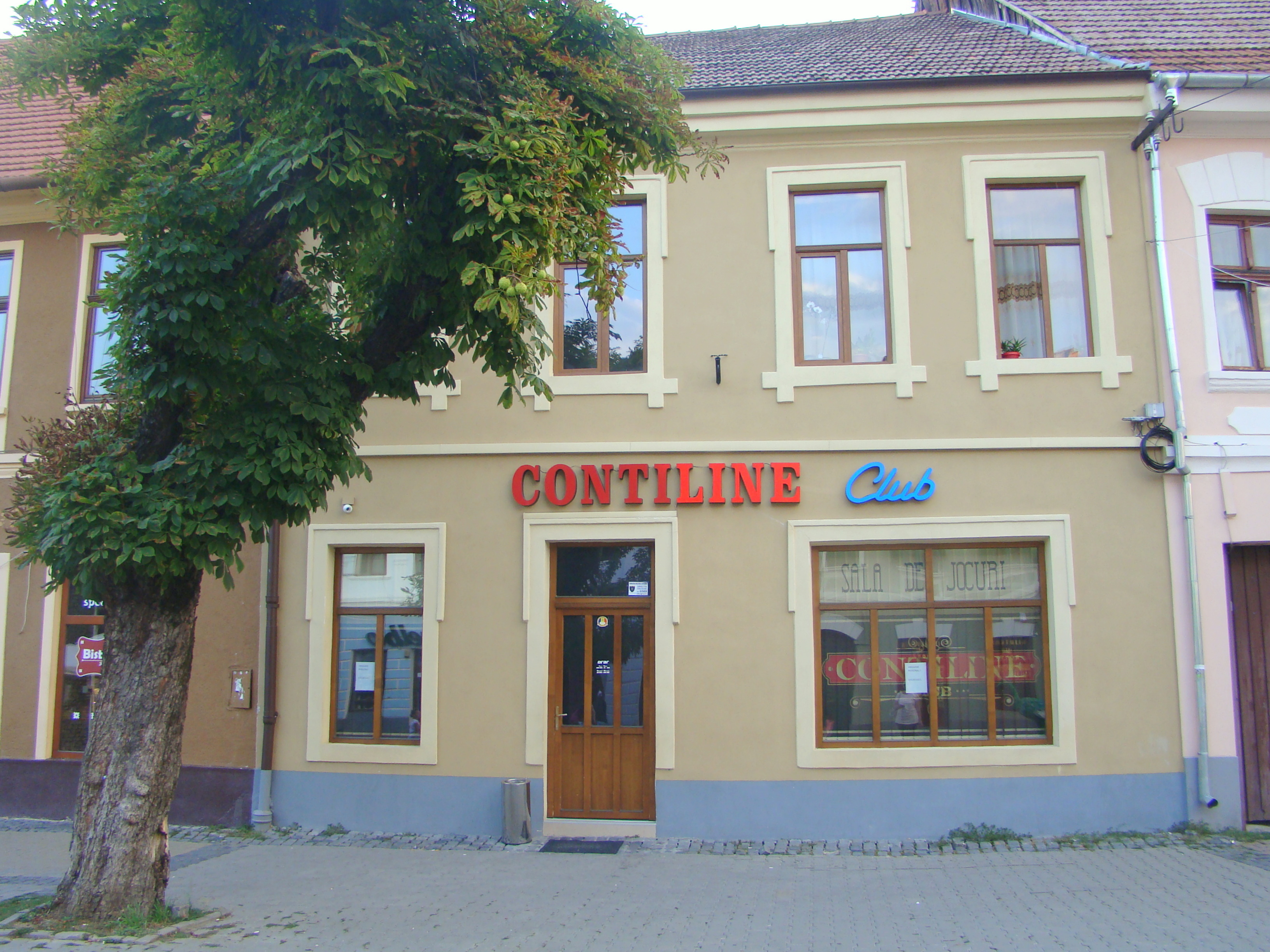 House, historic monument, in Bistrița, Liviu Rebreanu street 39